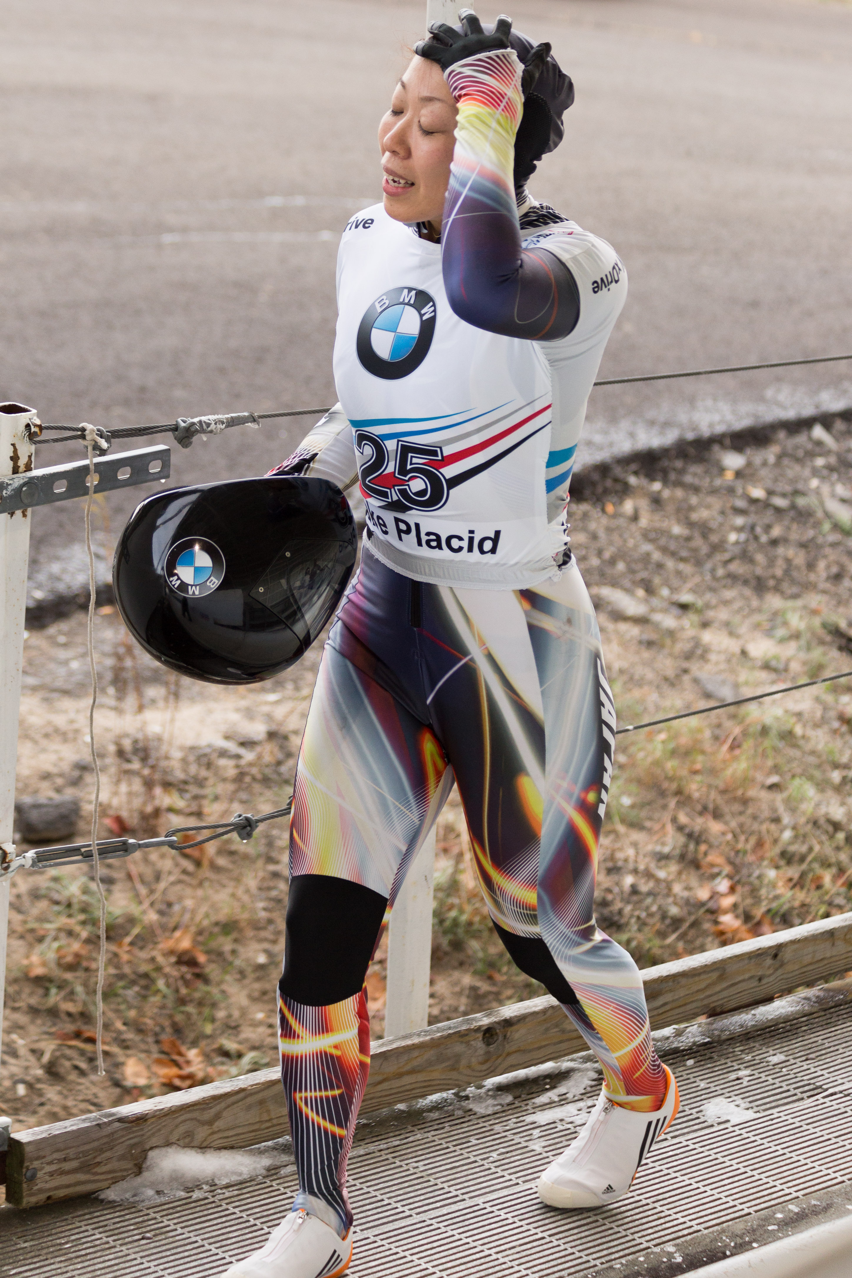 Nozomi Komuro (JPN) is seen at the finish of her first run in the 2017/2018 BMW IBSF World Cup race in Lake Placid.